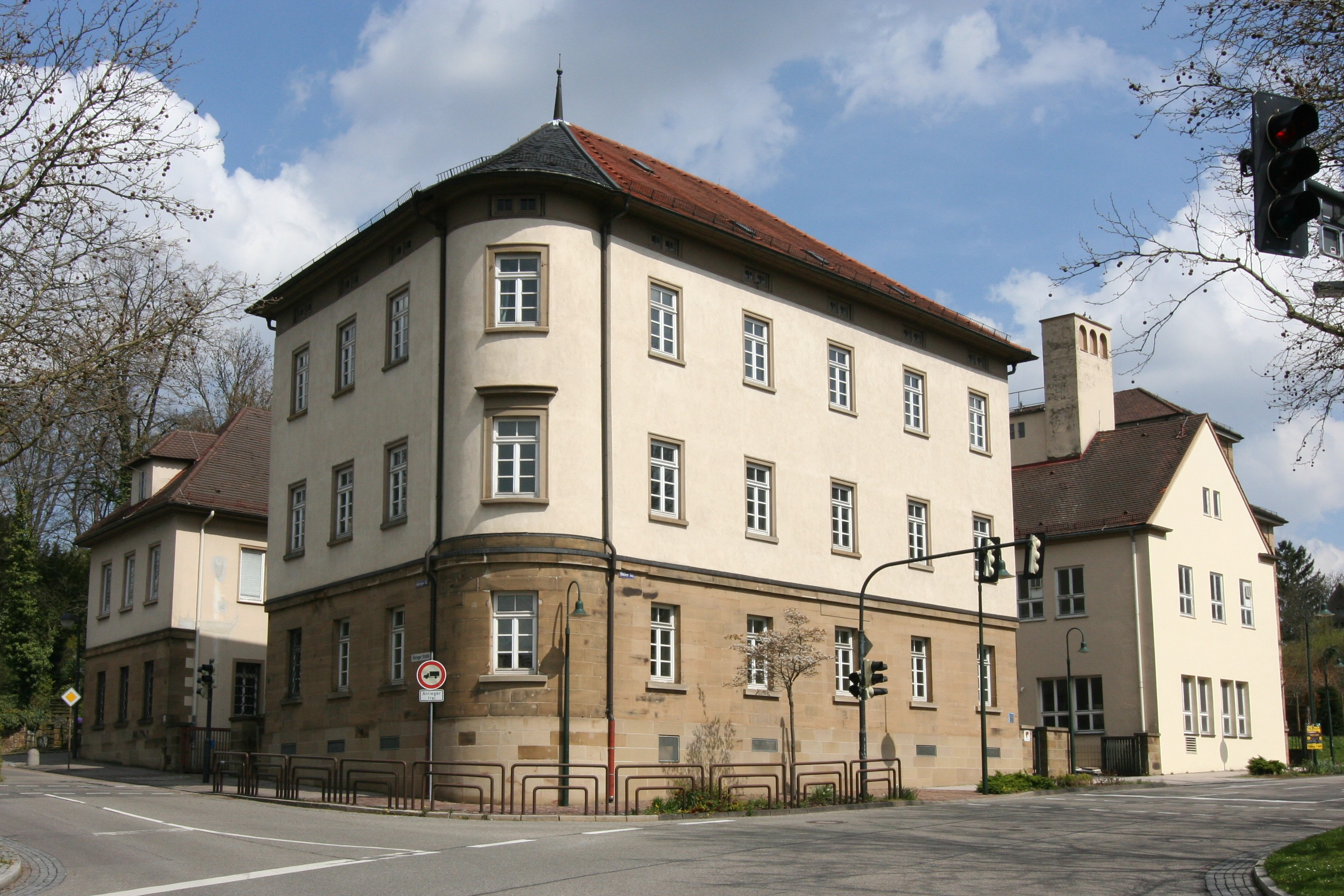 The former Oberamtsgericht (district court) building in Weinsberg